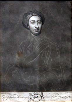 Theophilus Hastings, 7th Earl of Huntingdon (1650-1701)